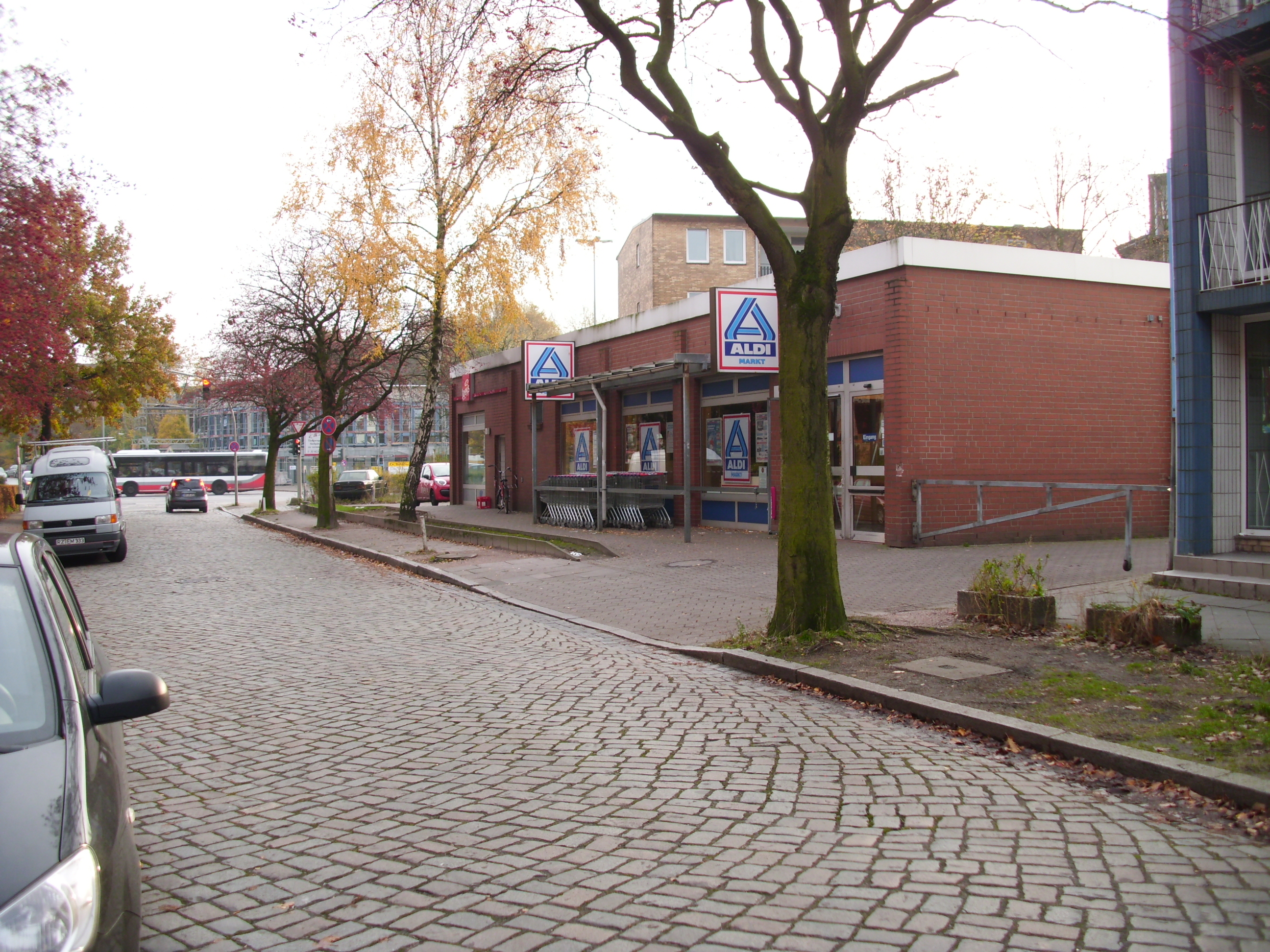 Aldi